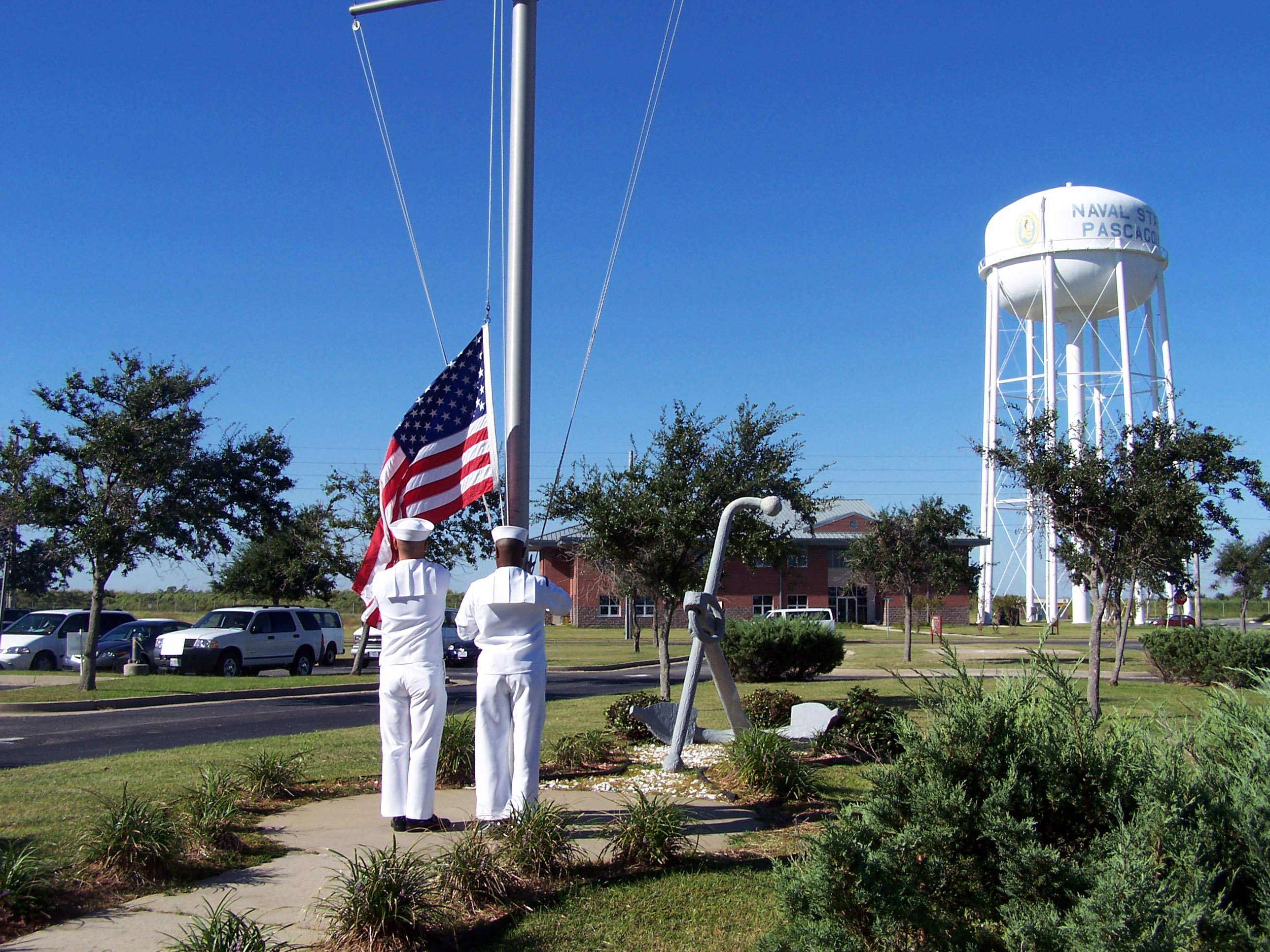 The American flag is lowered for the final time by Religious Program Specialist 2nd Class Robert Takle and Postal Clerk 2nd Class Raymond Parker during the Disestablishment Ceremony of Naval Station Pascagoula. The base will officially close Nov. 15, 2006. (Caption on website mistakenly lists this as 28 October, but the story and ceremony were dated 28 September 2006)